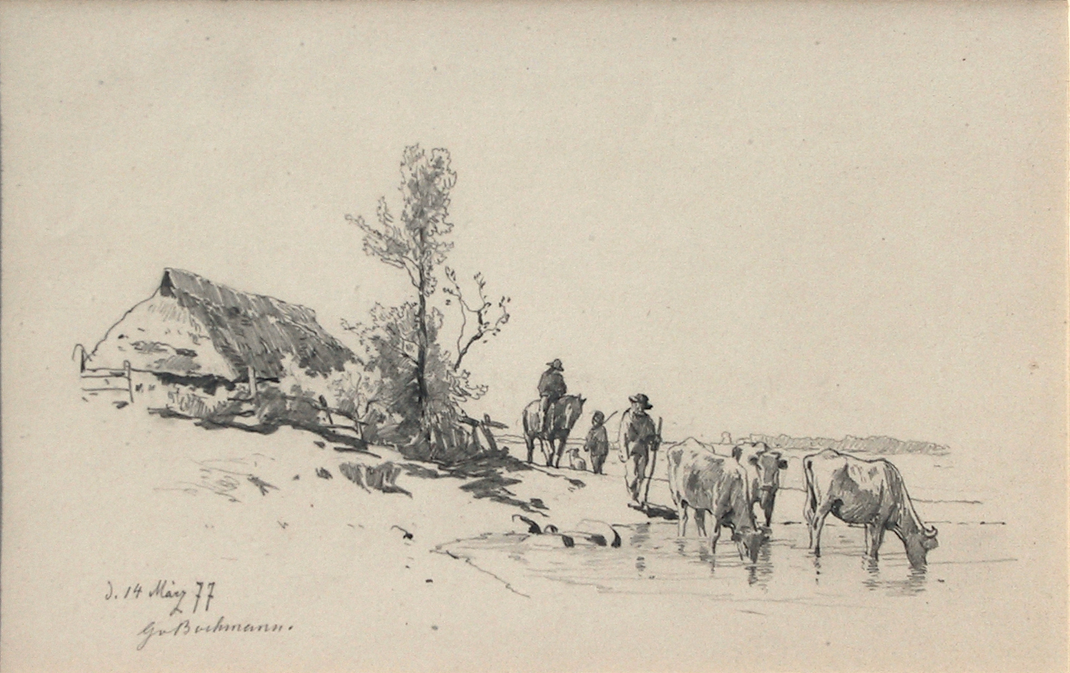 The drawing is signed and dated "d. 14 März 77". It is number B0512 in the work catalog. The photograph was taken in 2001. The painting is in a private collection. It represents a peasant scene in Estonia.